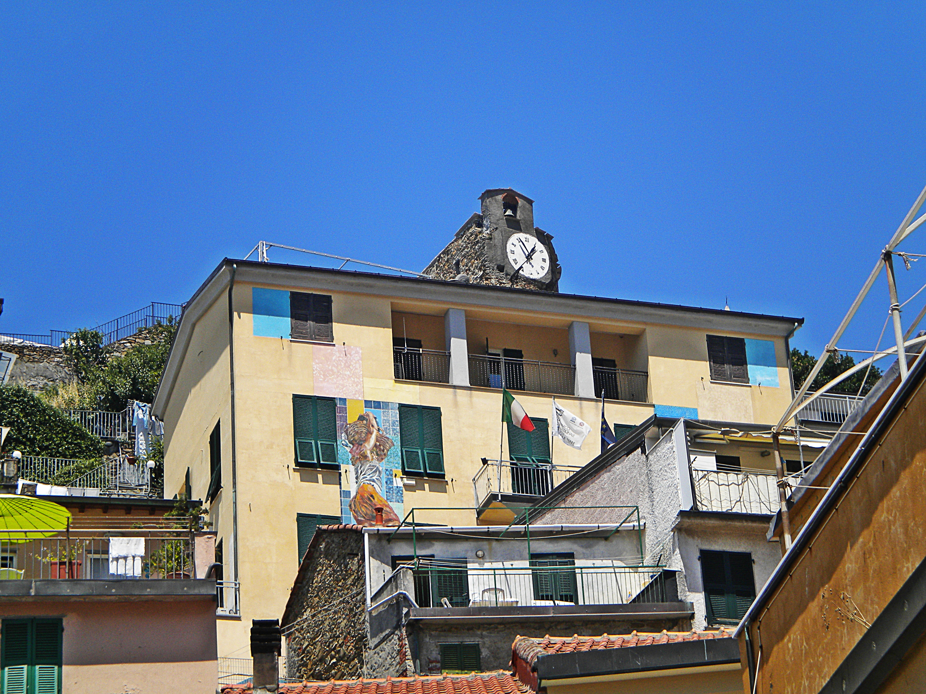 town hall vs castle